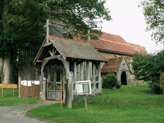 St. Mary's church and Lych Gate, Flowton, Suffolk The church has many trees around it, which makes it difficult to photograph the tower. It is mainly of the year 1300 with a few additions from later centuries. Most churches have a west door in the tower, but this church has a south door.